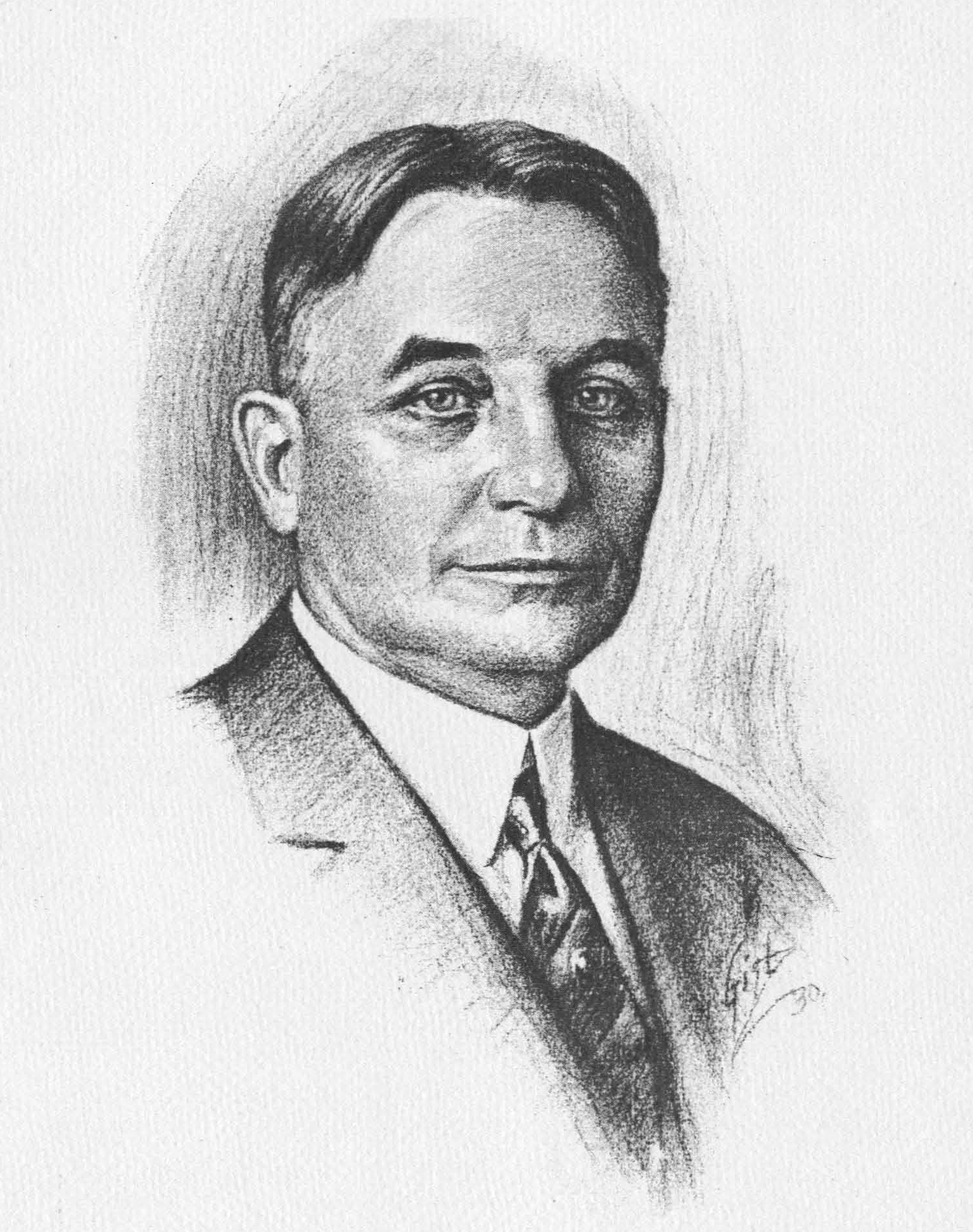 1931 sketch of California Institute of Technology Professor William Bennett Munro